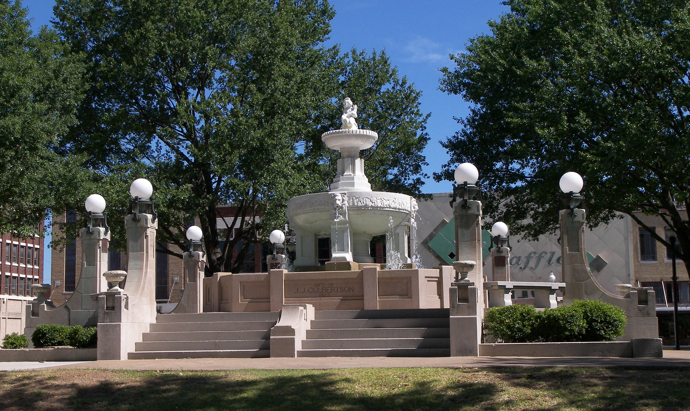 The Culbertson Fountain located in Paris, Texas, United States.